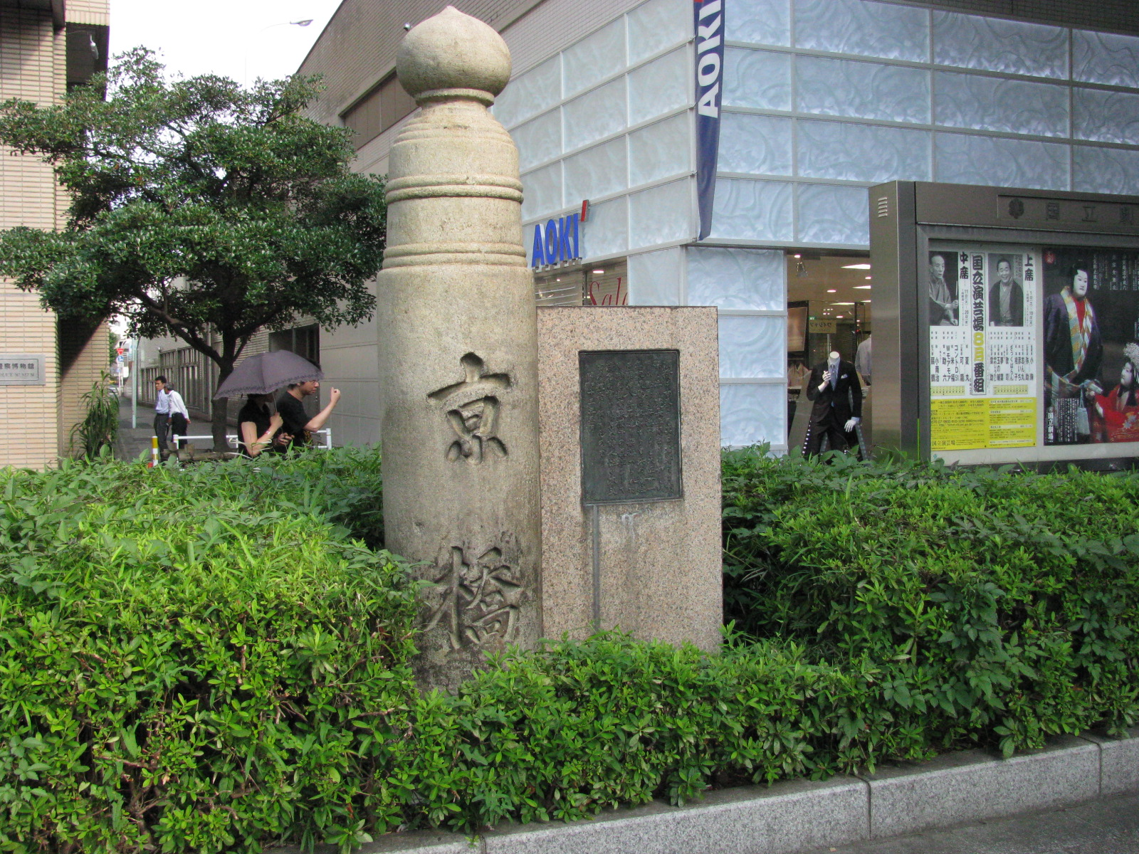 This is the Newel post of The Kyo-bashi (Kyo bridge). It was built in 1875. But Kyobashi was dismantled already. The Kyobashi is located in cyuo, Tokyo, japan.